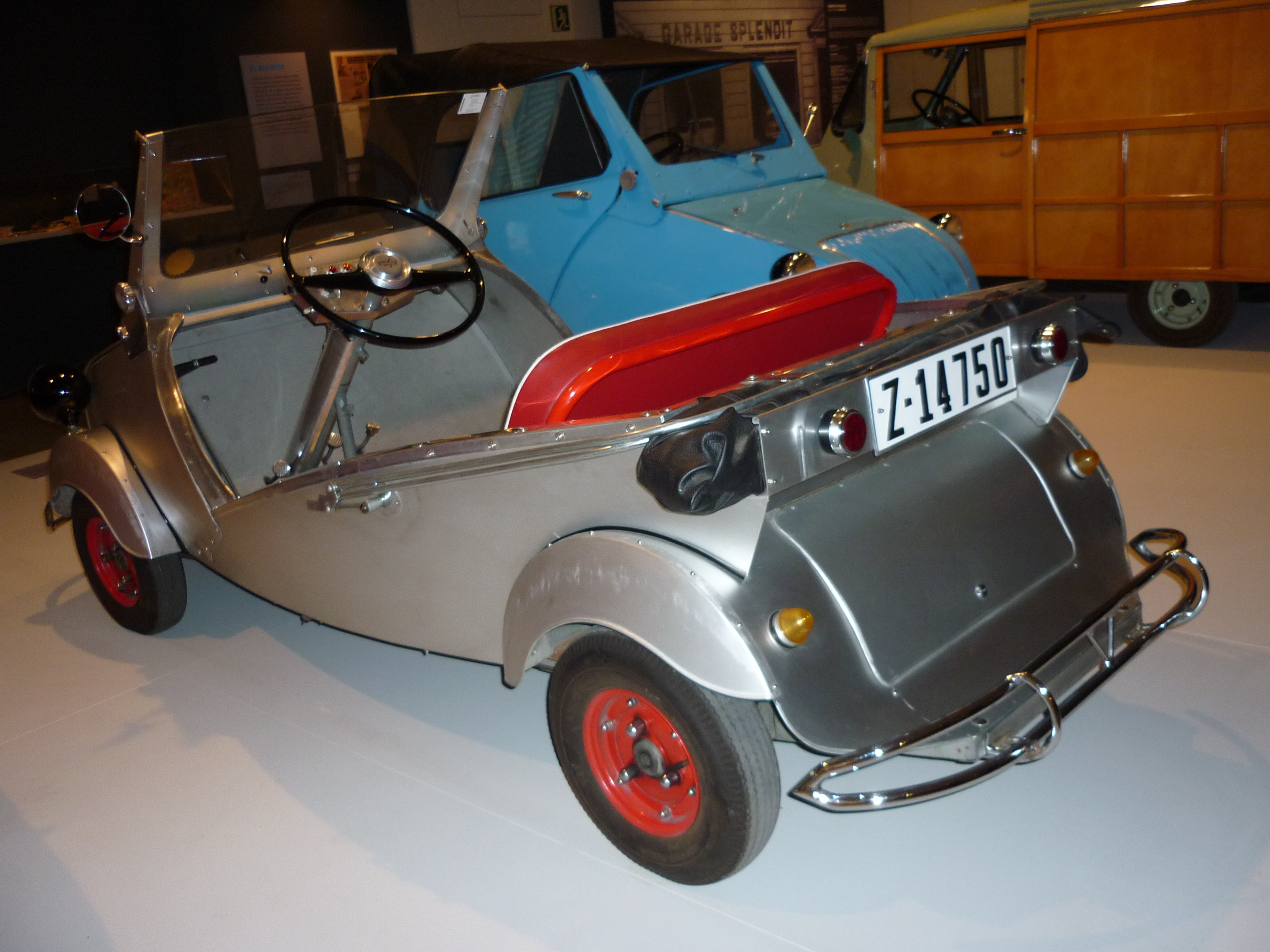 Biscúter 100 "Espardenya" (1953), microcar made in Catalonia